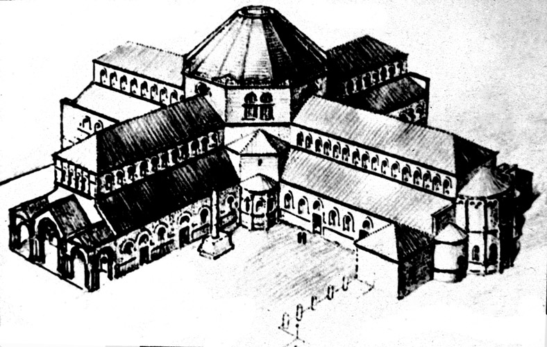 Church of St. Simeon (Reconstruction) ca. 470 Qalaat Seman, Syria